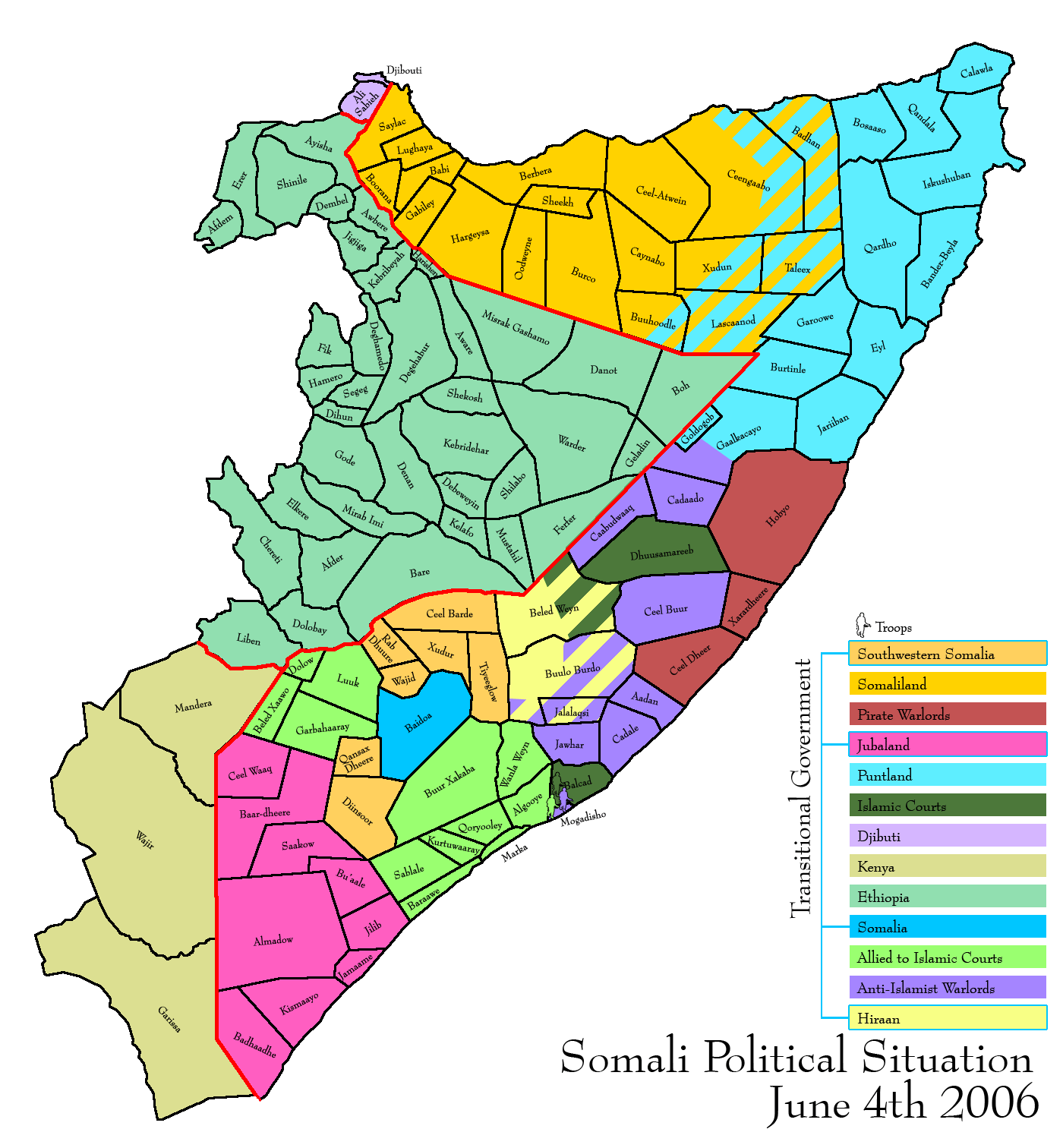 Somali political situation as of June 4, 2006.